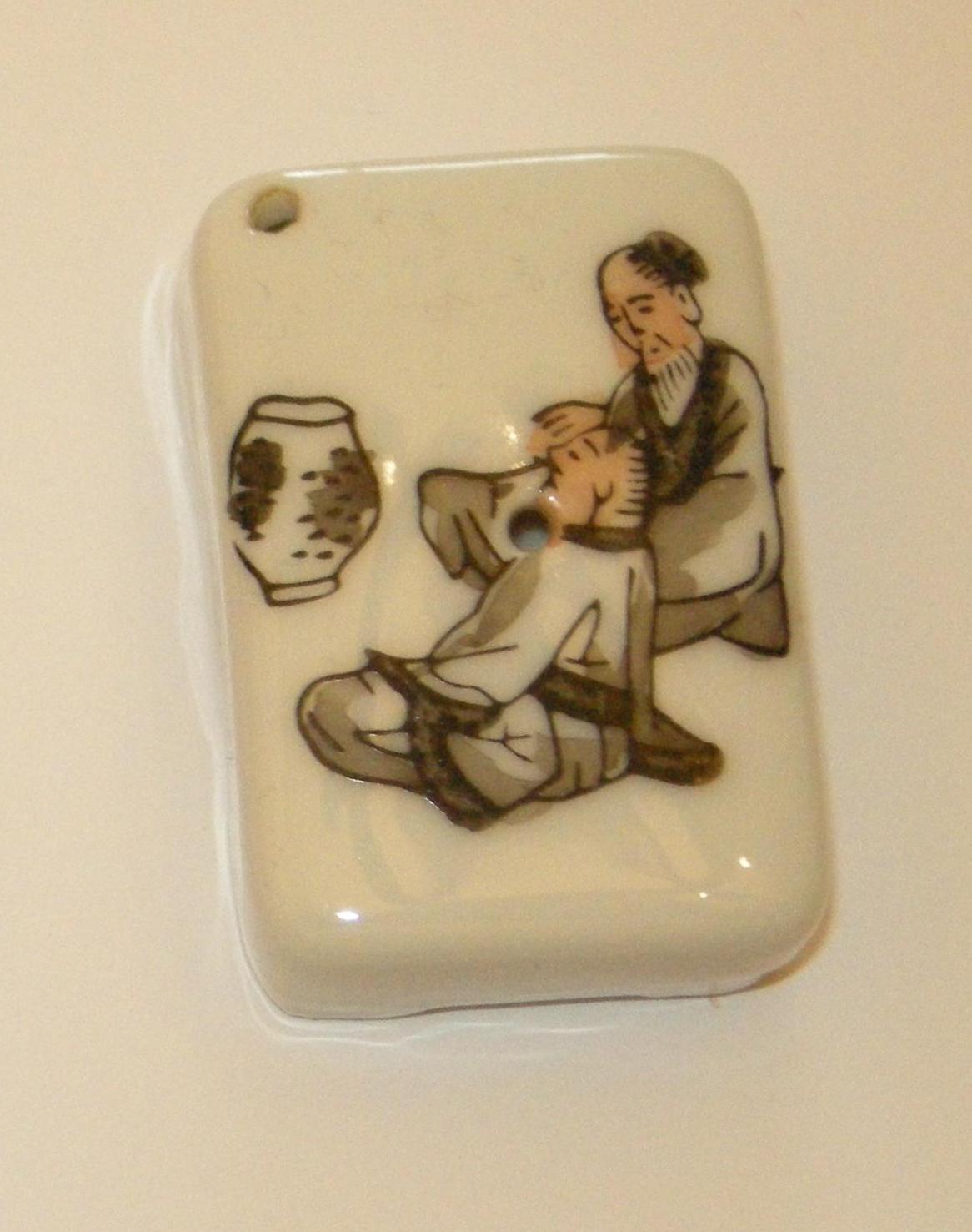 Water-dropper, in Japanese known as a 水滴 [suiteki] in Mandarin Chinese known as 水滴 [shuǐdī]. Is a small container used to hold the water which is added to the inkstone during the grinding of the inkstick.